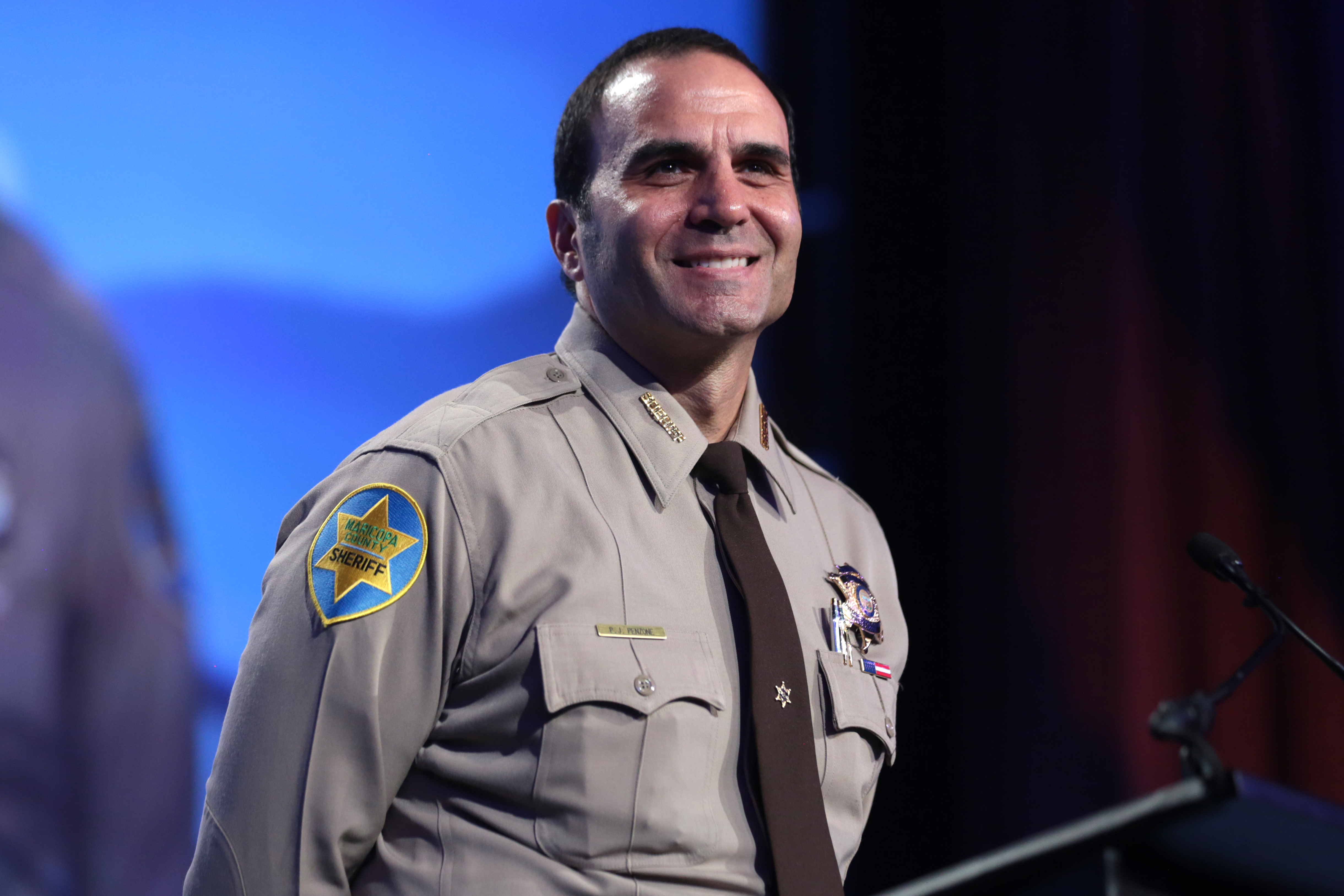 Maricopa County Sheriff Paul Penzone speaking with attendees at the 2017 National Council of La Raza (NCLR) Annual Conference at the Phoenix Convention Center in Phoenix, Arizona.